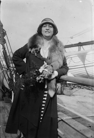 Margarete Matzenauer (1881 - 1963), Hungarian-born American soprano